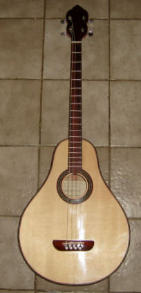 A Lark in the Morning replica of a Lyon & Healy tenor guitar